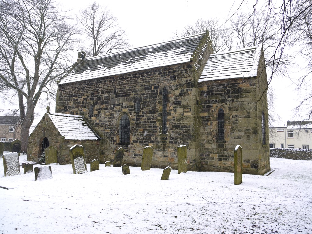 Anglo-Saxon church at Escomb, County Durham, seen from the southeast in snow